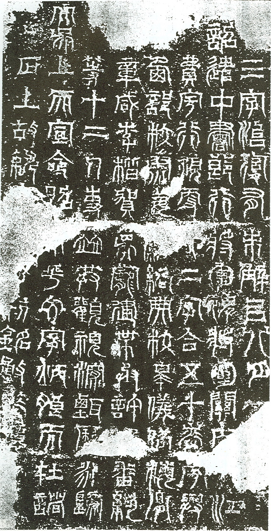 Inscription by a Divine Prophecy "天发神谶碑". Full-length.